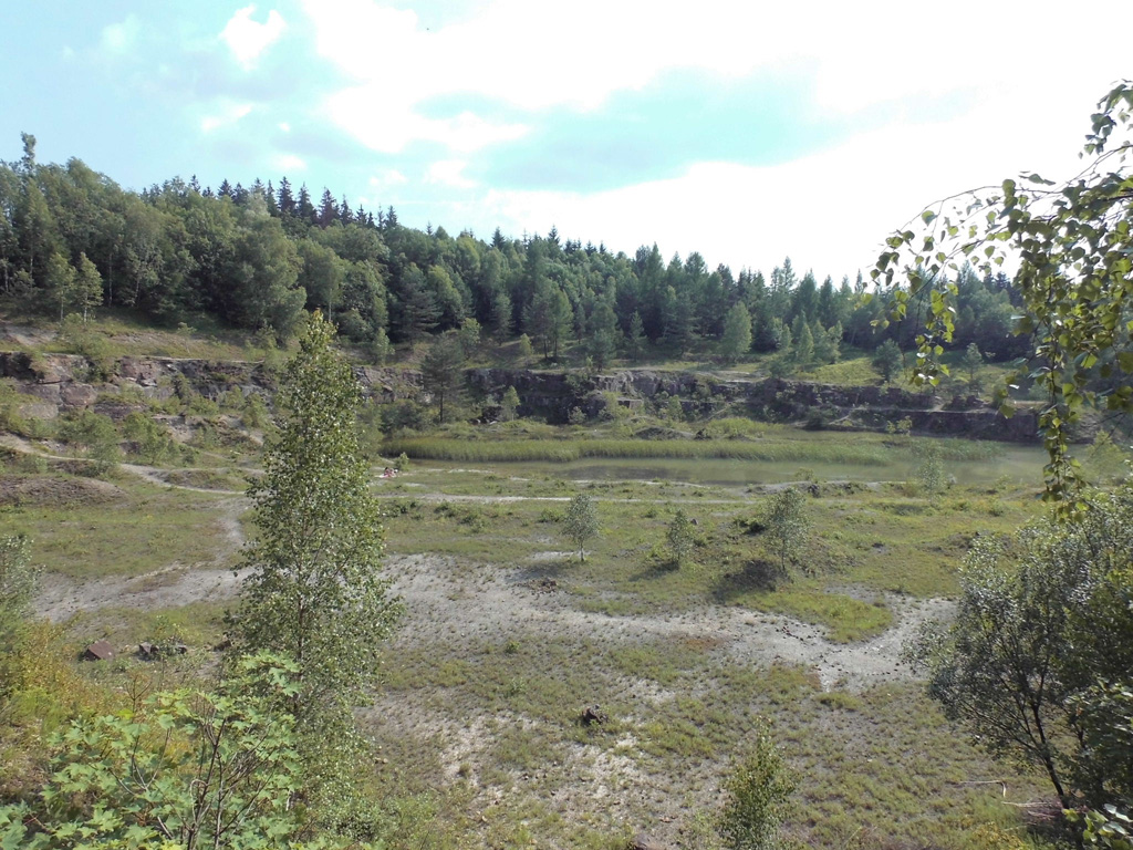 Natural monument Lom Rasová near Komňa village in Uherské Hradiště District, Czech Republic